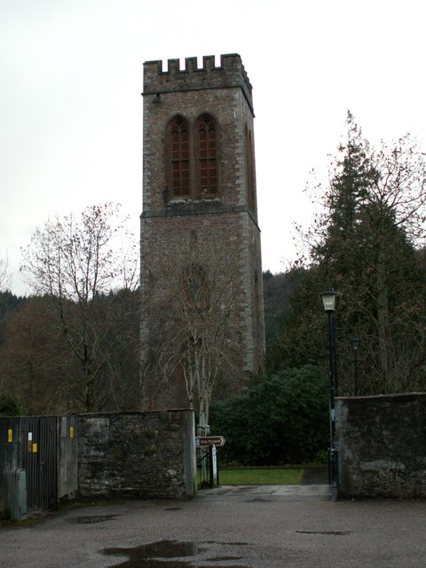 Dukes Tower Inverarary Part of the church but stands a lone.